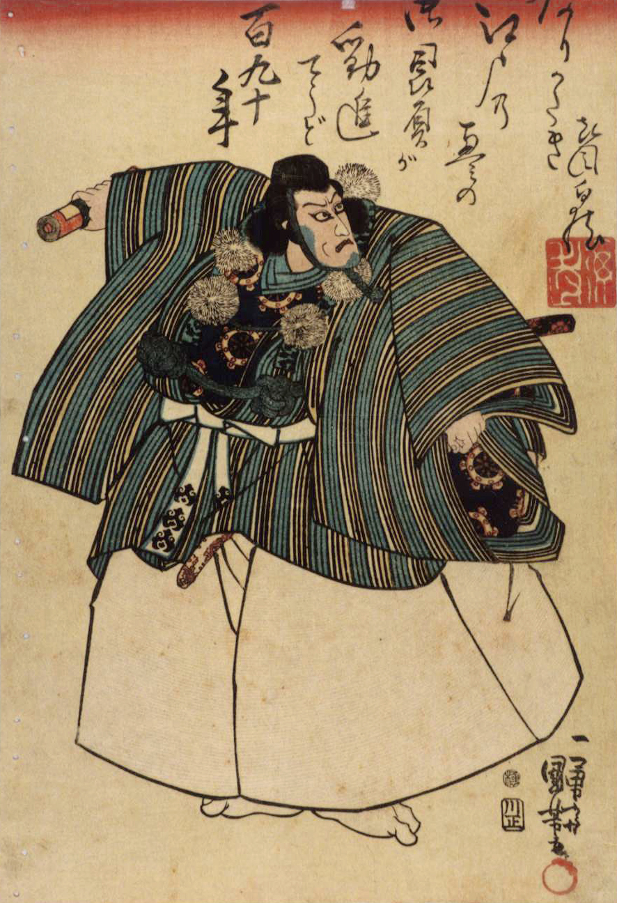 Ichikawa Ebizō V as Benkei, in the March 1840 Edo Kawarazaki-za premiere production of Kanjinchō, painted by Kuniyoshi Utagawa.